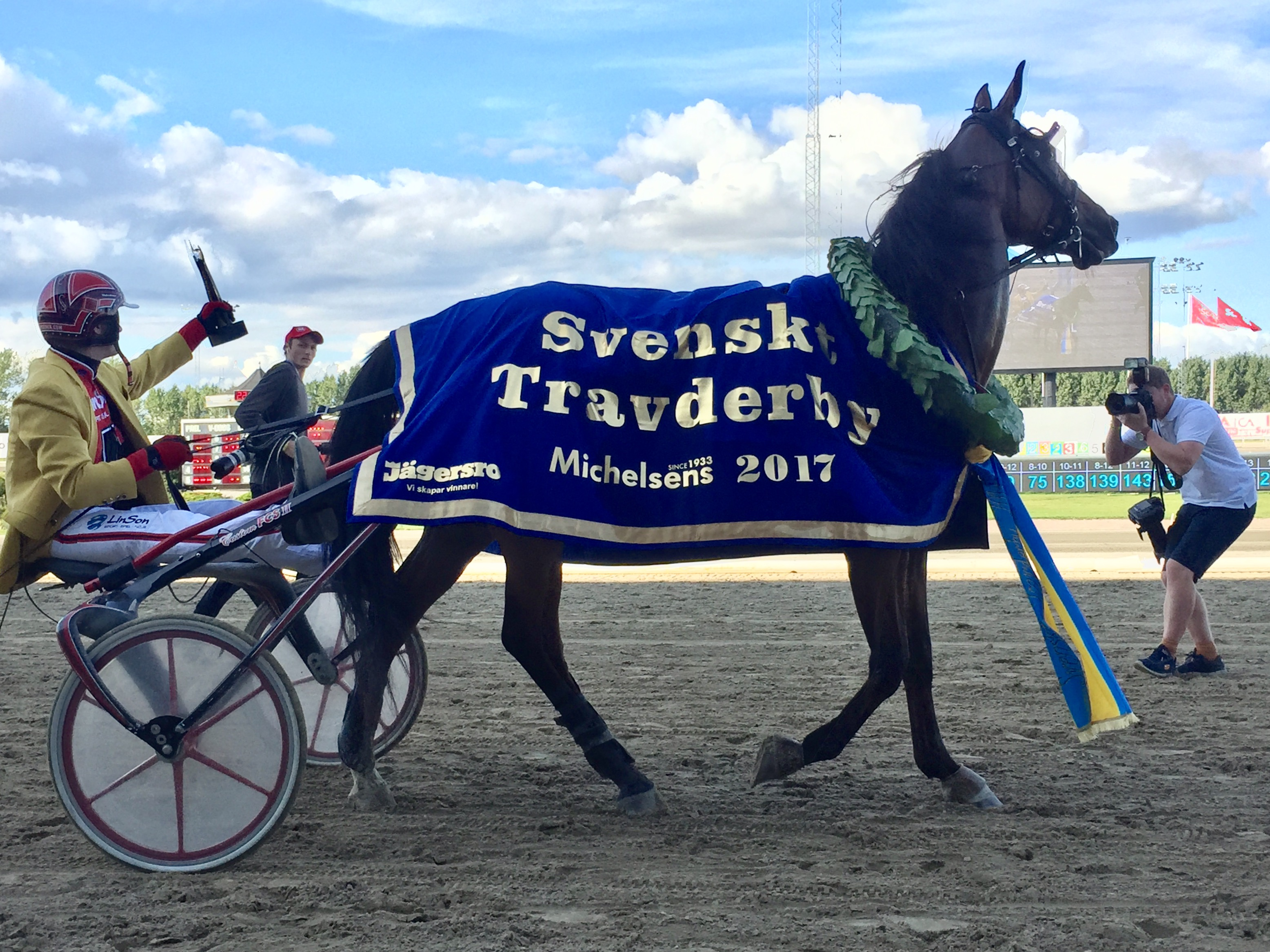 Johan Untersteiner and Cyber Lane after winning Swedish Trotting Derby 2017-09-03.